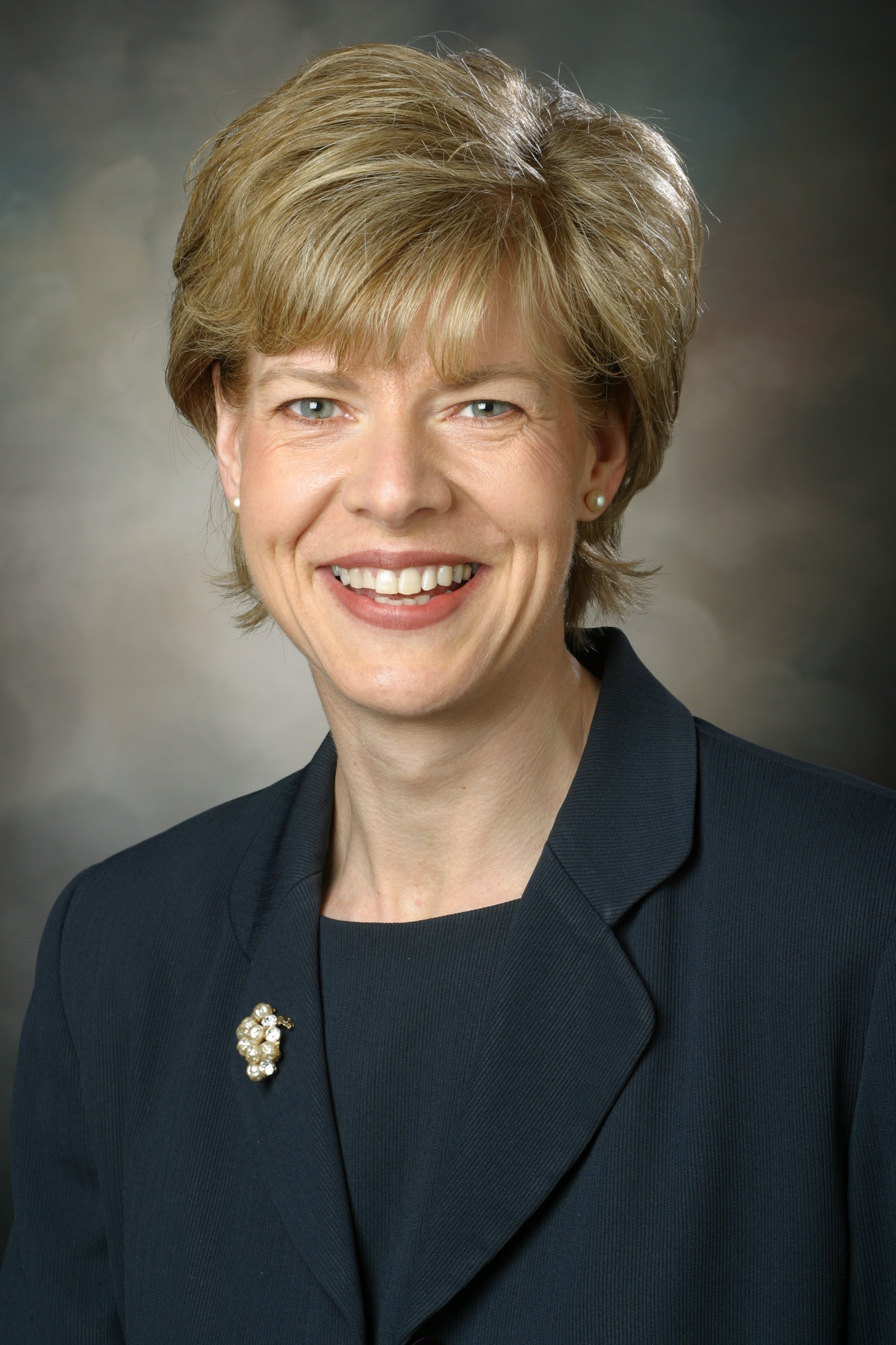 Tammy Baldwin, U.S. Congresswoman.